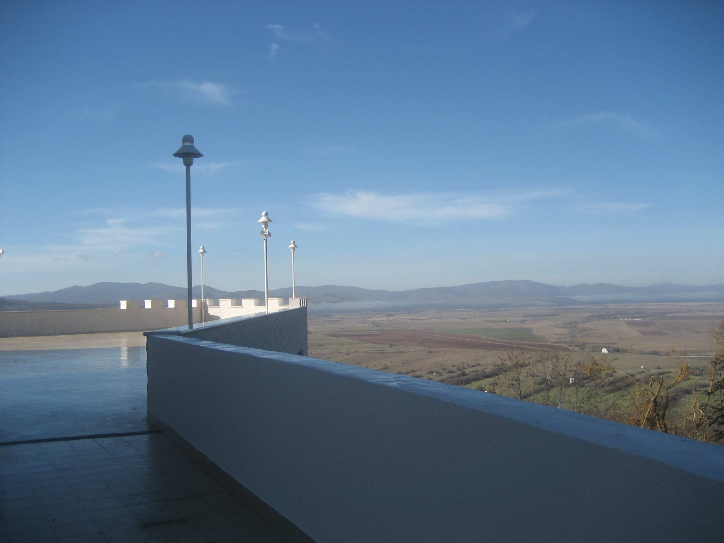 Krbavsko polje.